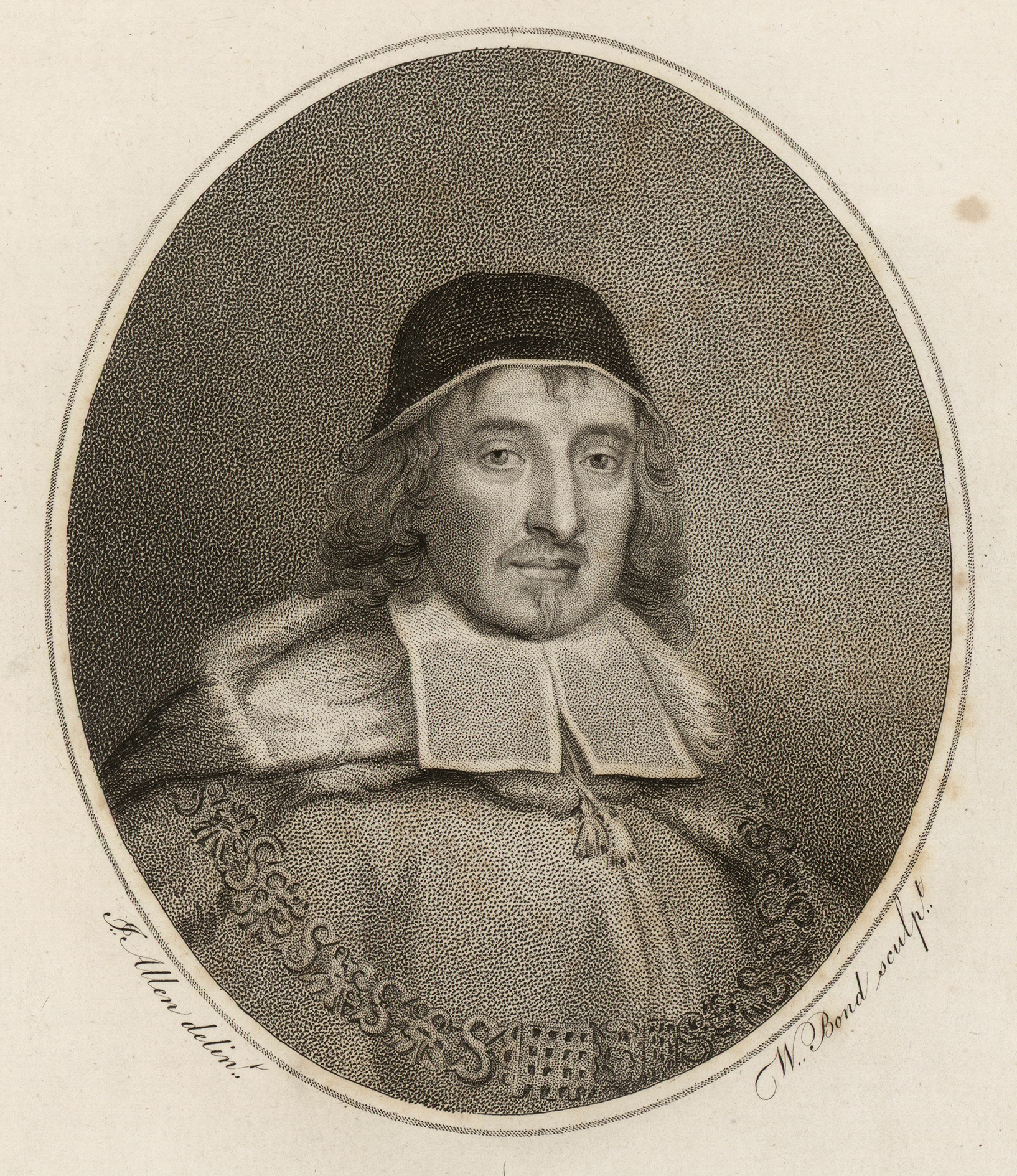 An image from a set of 8 extra-illustrated volumes of A tour in Wales by Thomas Pennant (1726-1798) that chronicle the three journeys he made through Wales between 1773 and 1776. These volumes are unique because they were compiled for Pennant's own library at Downing. This edition was produced in 1781. The volumes include a number of original drawings by Moses Griffiths, Ingleby and other well known artists of the period. Thomas Pennant (1726-1798)